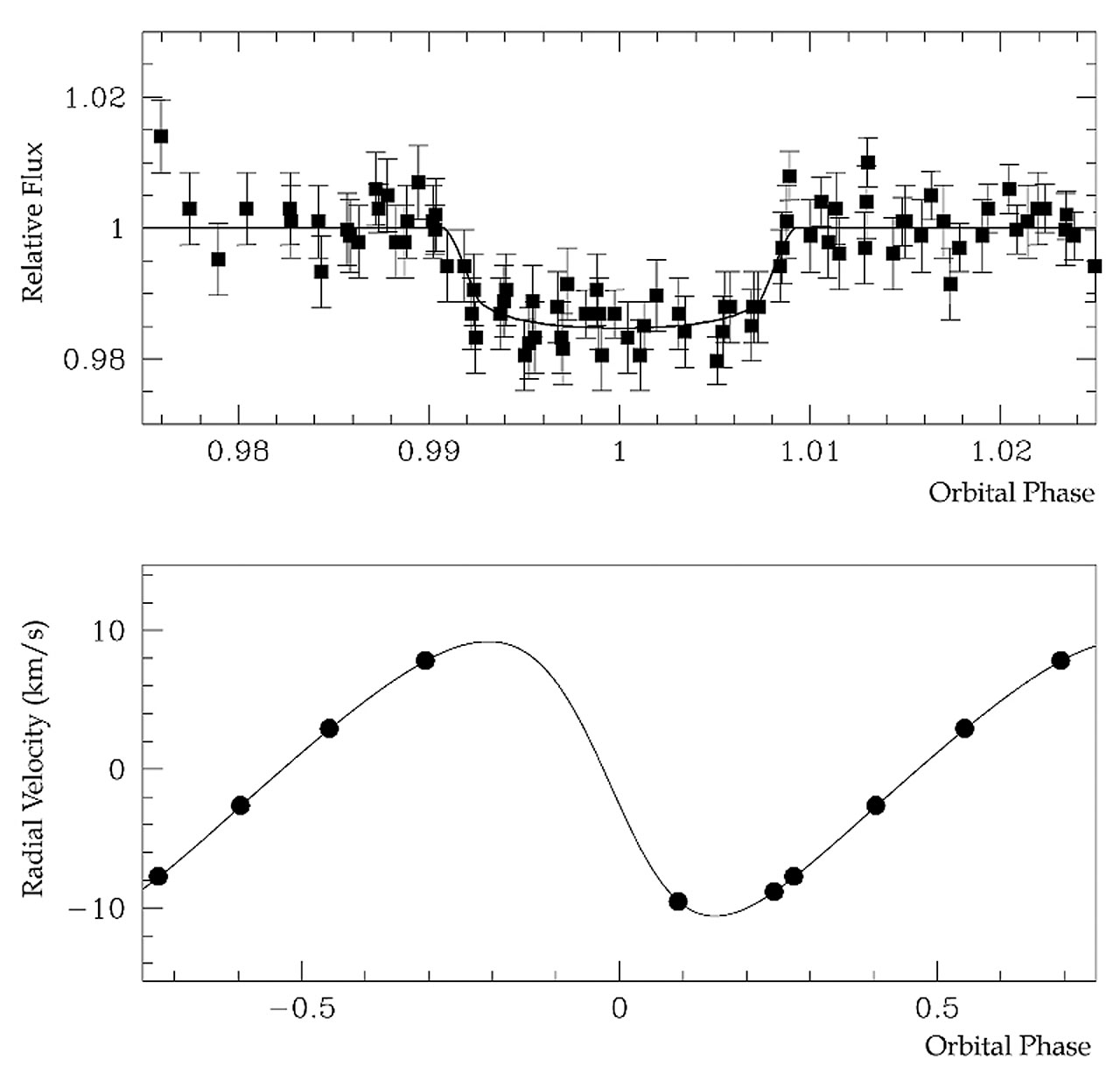 The top panel shows the brightness dip of OGLE-TR-122 as measured by OGLE. The signal from the star is reduced by 1.5% for a little more than 3 hours. This is the probable indication that an object passed in front of the star. The bottom panel presents the velocity variations of the star. They were determined with the FLAMES instrument on the VLT. The orbital solution fitting the data is also shown as the solid line. These measurements indicate the presence of a low-mass stellar companion to OGLE-TR-122.